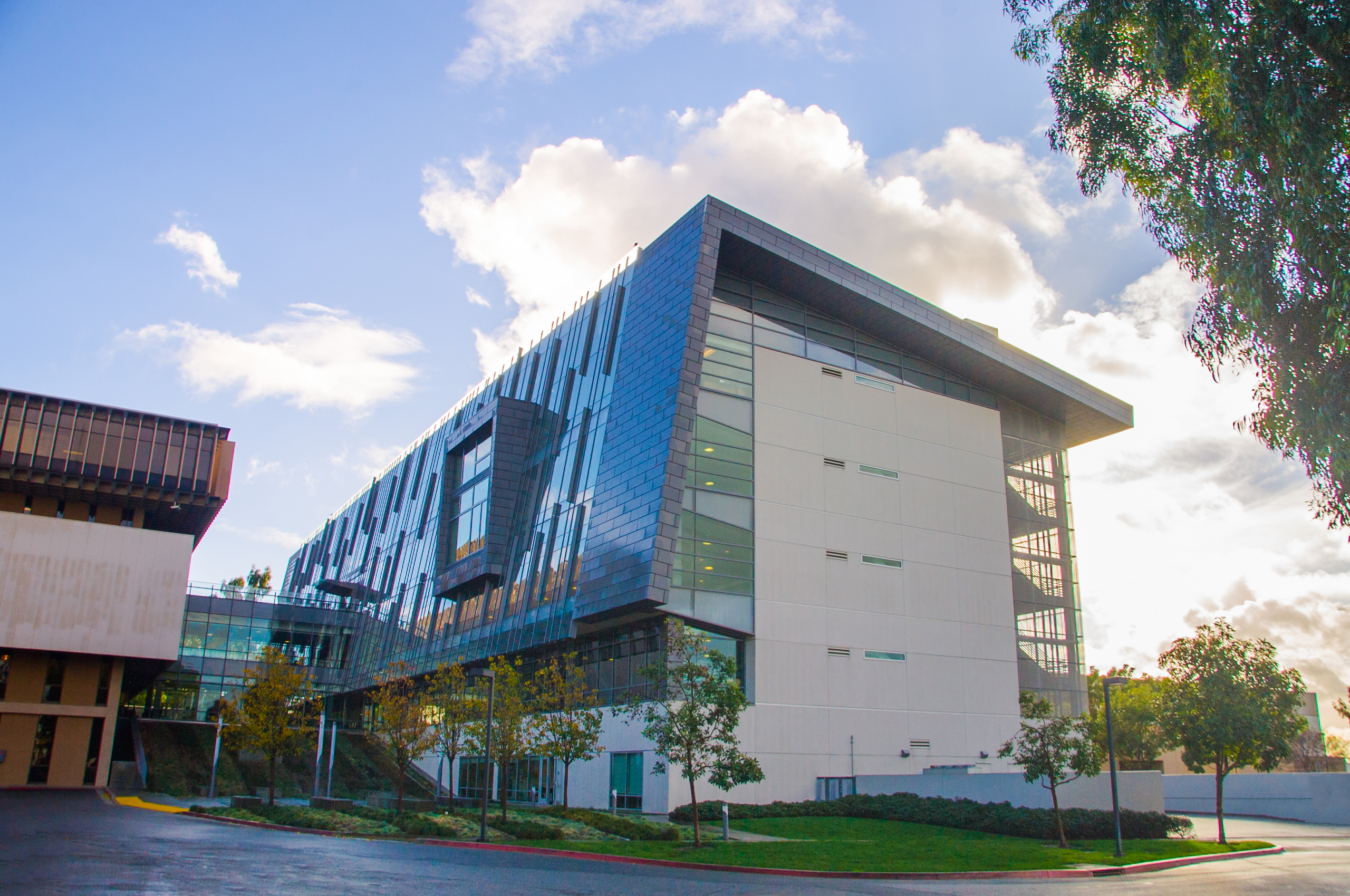 Additions made to Dominguez Hills library.